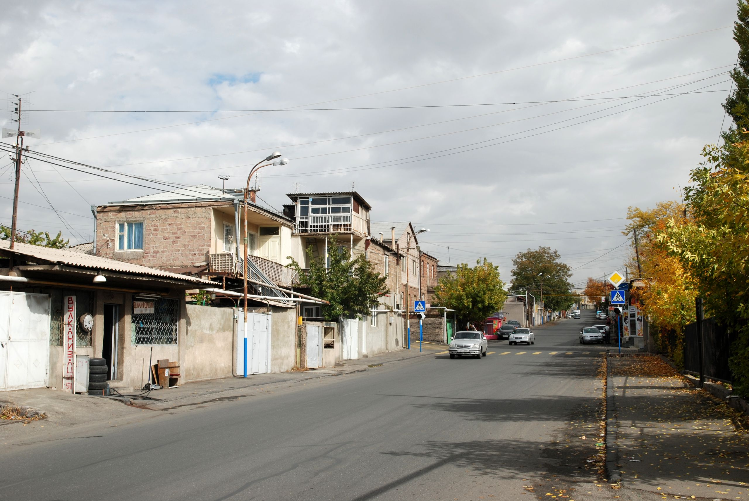 Avan, Yerevan, Marshal Khudiakov Street